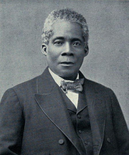 E. W. Blyden